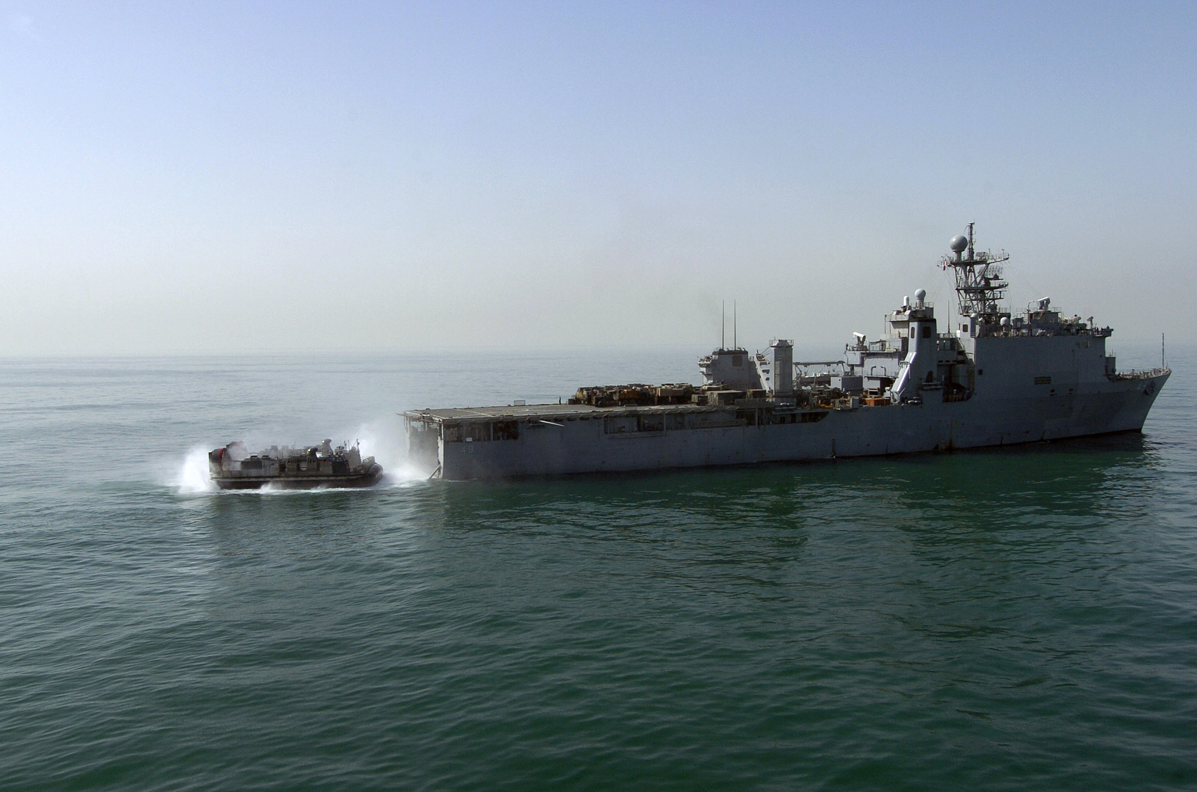 Kuwait Naval Base, Kuwait (Mar. 5, 2005) - A Landing Craft Air Cushion (LCAC) assigned to Assault Craft Unit Five (ACU-5), safely disembarks the well deck of the amphibious dock landing ship USS Harpers Ferry (LSD 49) destined for a Kuwait Naval Base (KNB). Harpers Ferry is part of Expeditionary Strike Group Three (ESG-3) and is currently deployed to the Persian Gulf in support of Operation Iraqi Freedom (OIF). U.S. Navy photo by Photographer's Mate 1st Class Richard J. Brunson (RELEASED)